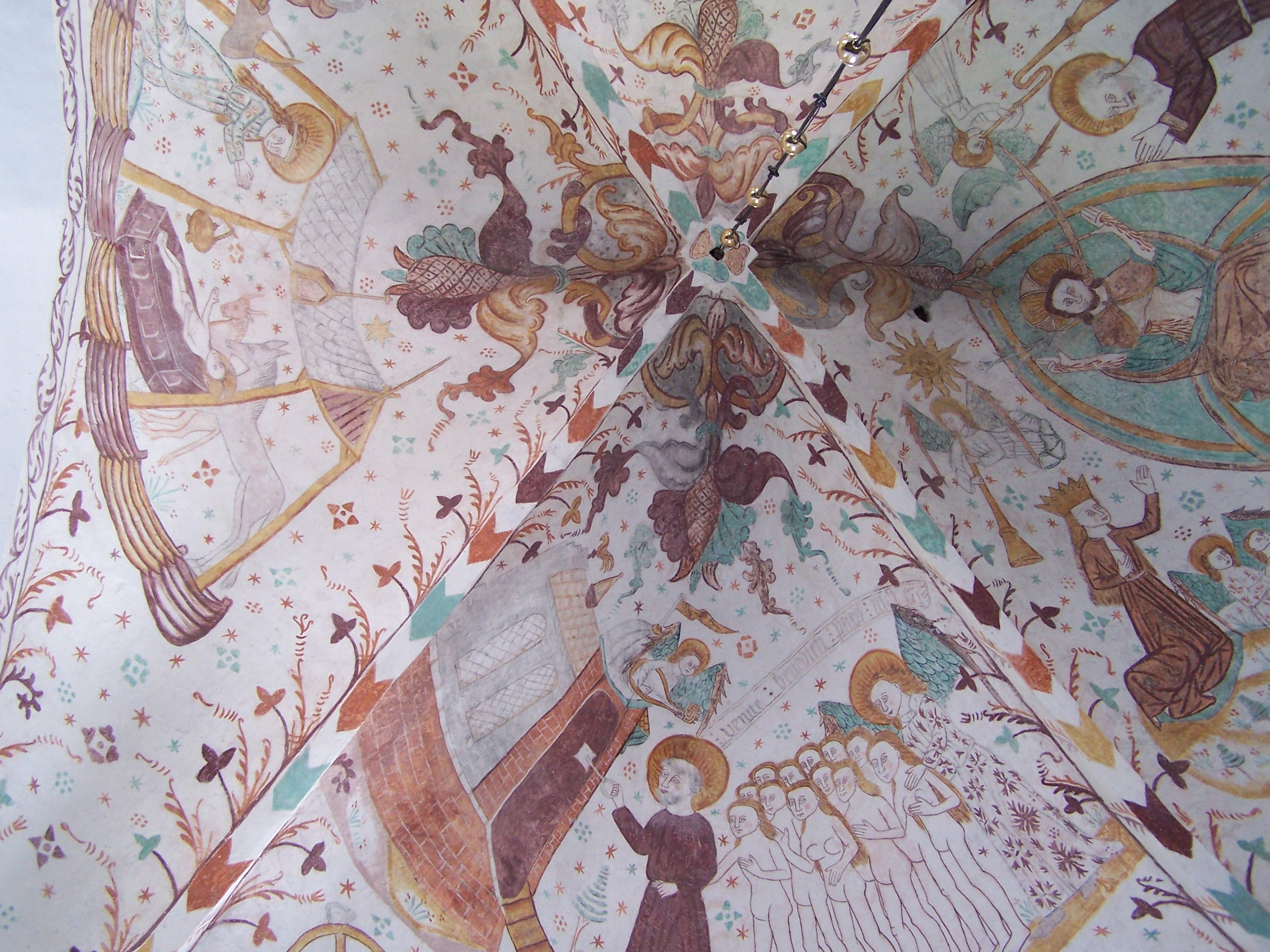 Elmelunde Church Frescos in ceiling